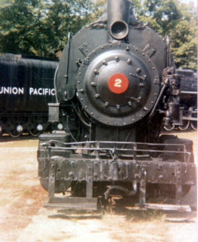 Simon Wrecking Company Locomotive 2 on static display at Steamtown USA Bellows Falls VT, C. 1974